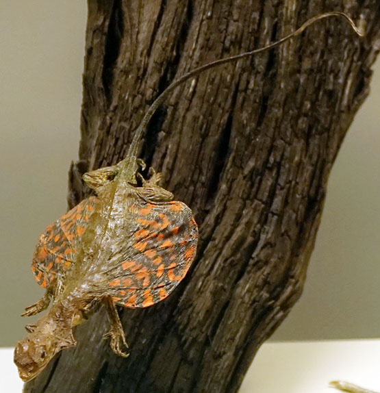 A taxidermied common flying dragon (Draco volans) in Augsburg Naturmuseum.